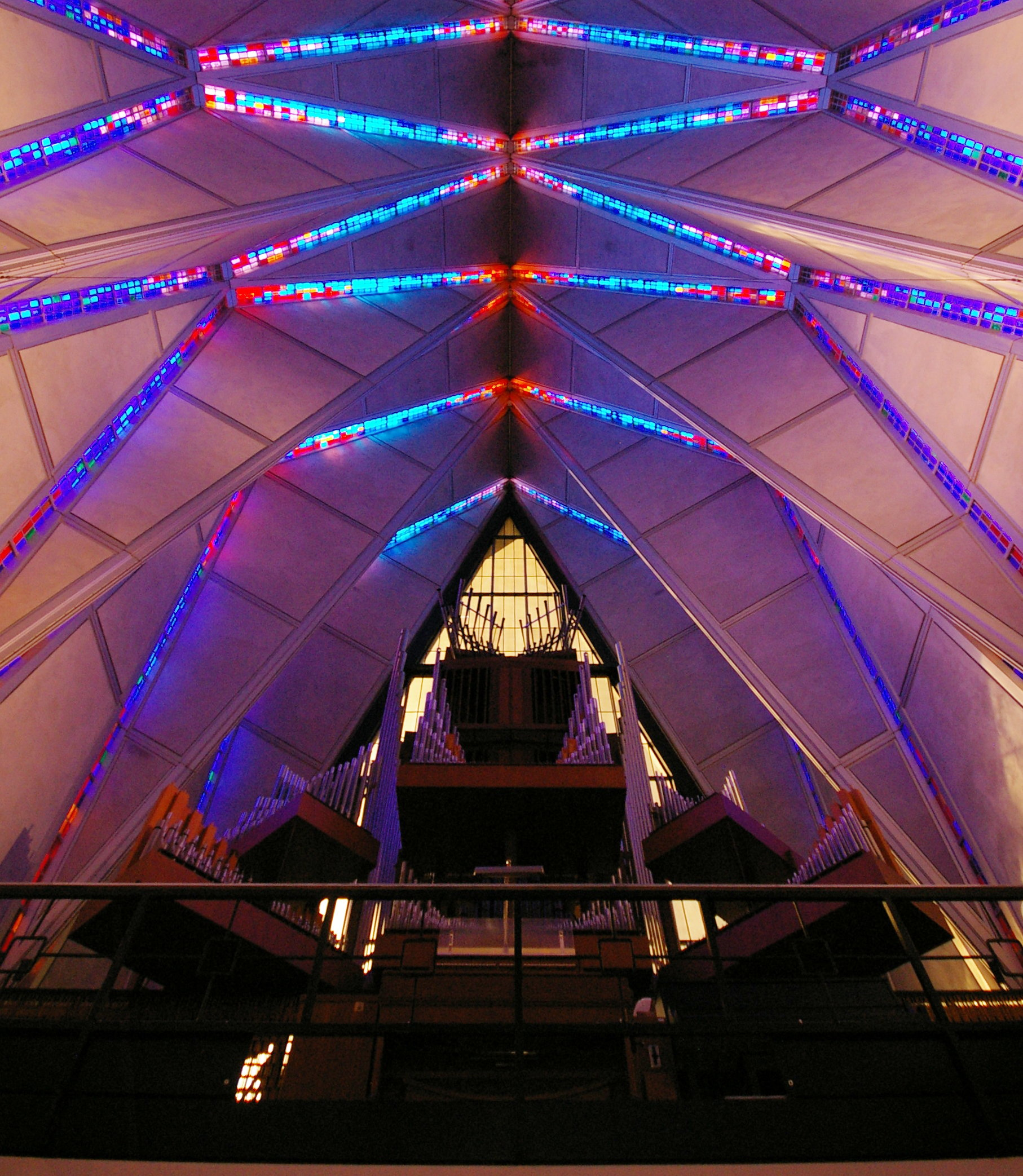 The organ at the back of the Protestant Chapel at the US Air Force Academy in Colorado Springs, CO. A wide angle lens was used to get the ceiling in the frame as well.